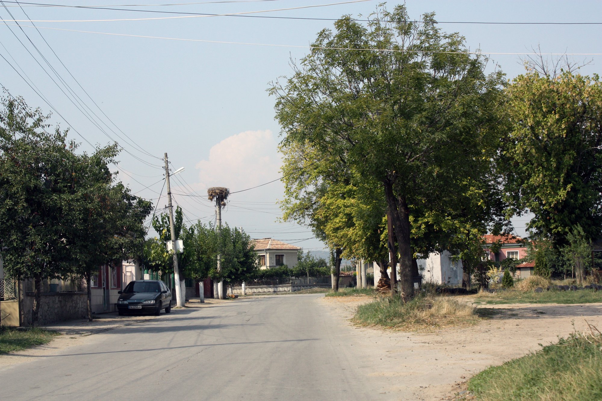 A street in Chernogorovo village, PPazarzhik district, Bulgaria